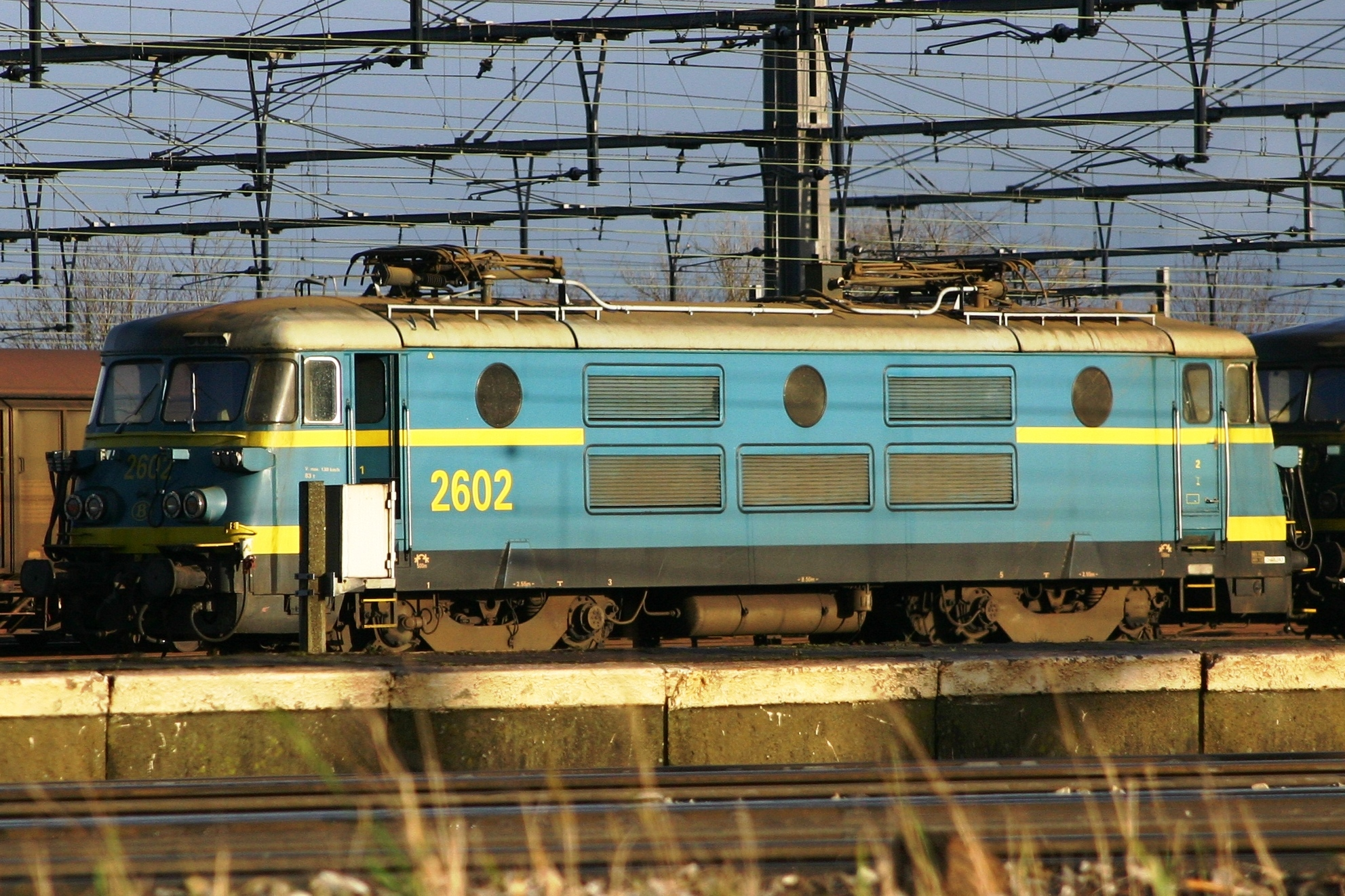 Loc 2602 in classification yard Montzen in Belgium